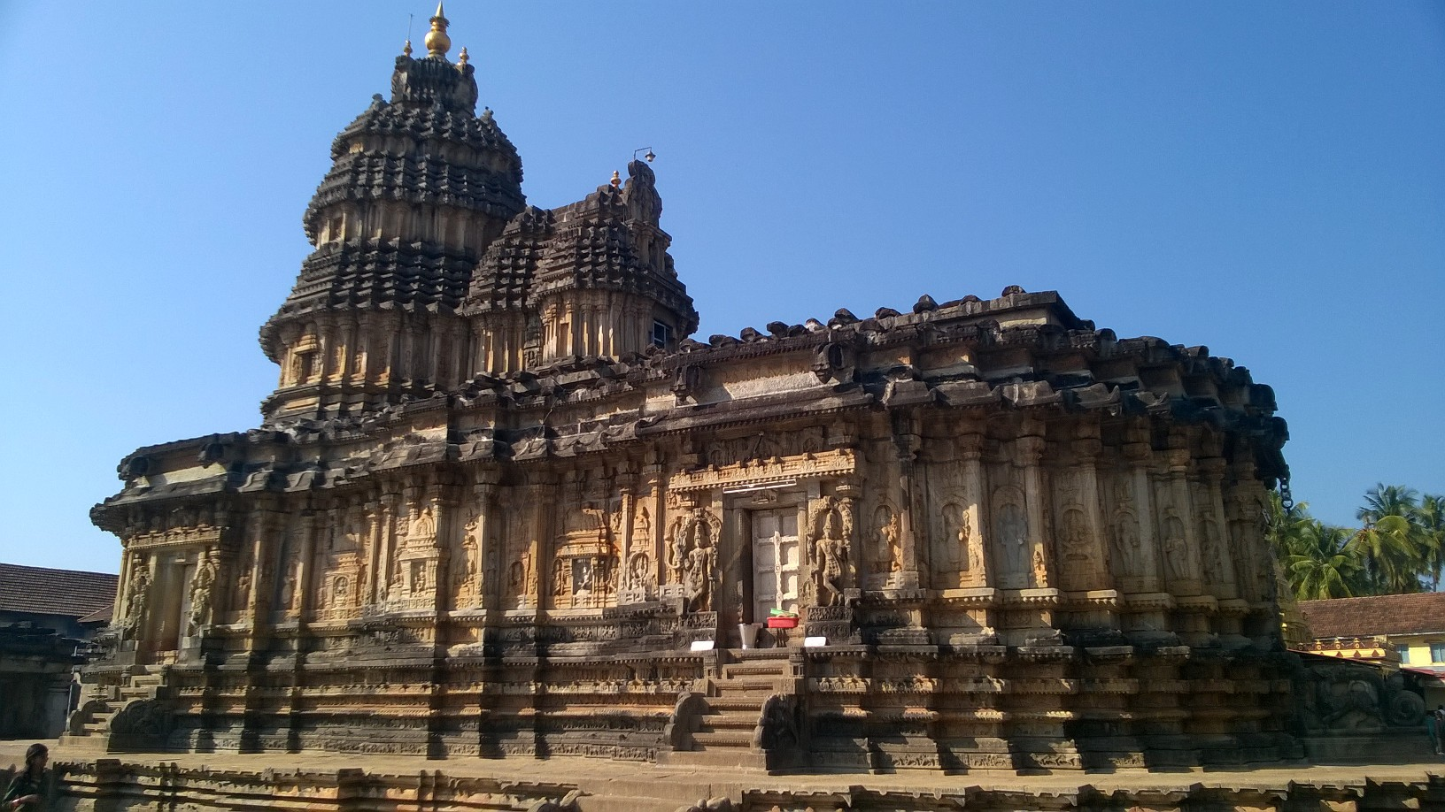 Sri Vidyashankara Temple, Sringeri, Chikkamagalur District, Karnataka.